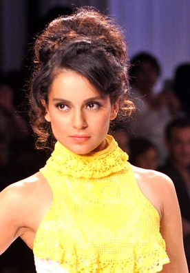 Kangana Ranaut walking the ramp at Signature International Fashion Weekend